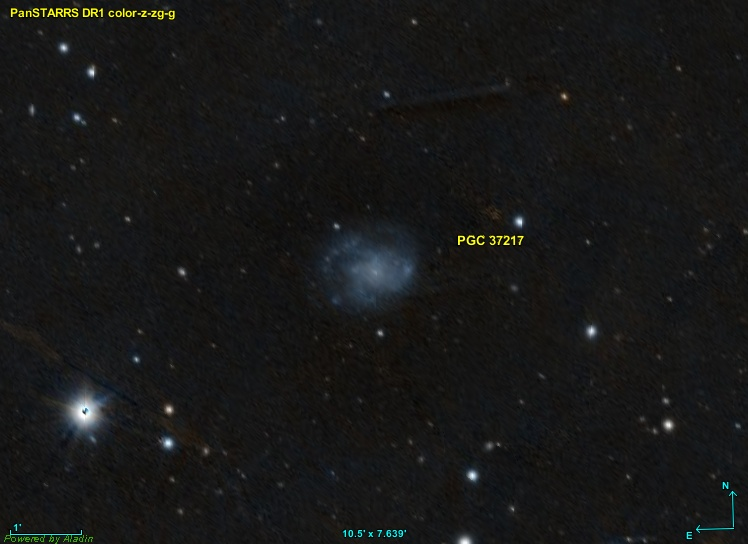 Image created using the Aladin Sky Atlas software from the Strasbourg Astronomical Data Center and Pan-STARRS (Panoramic Survey Telescope And Rapid Response System) public data.